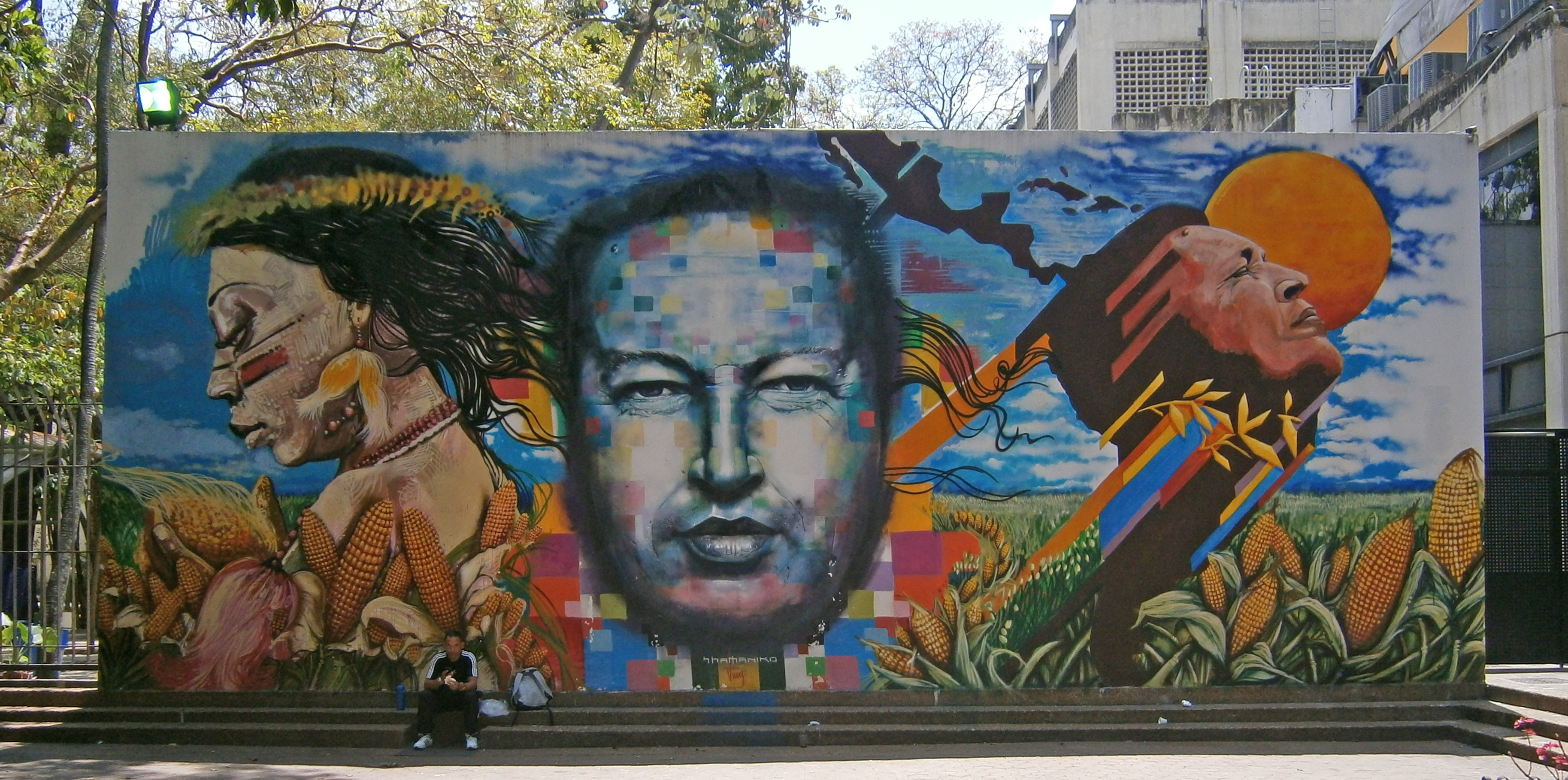 Mural Chávez is God in Caracas.